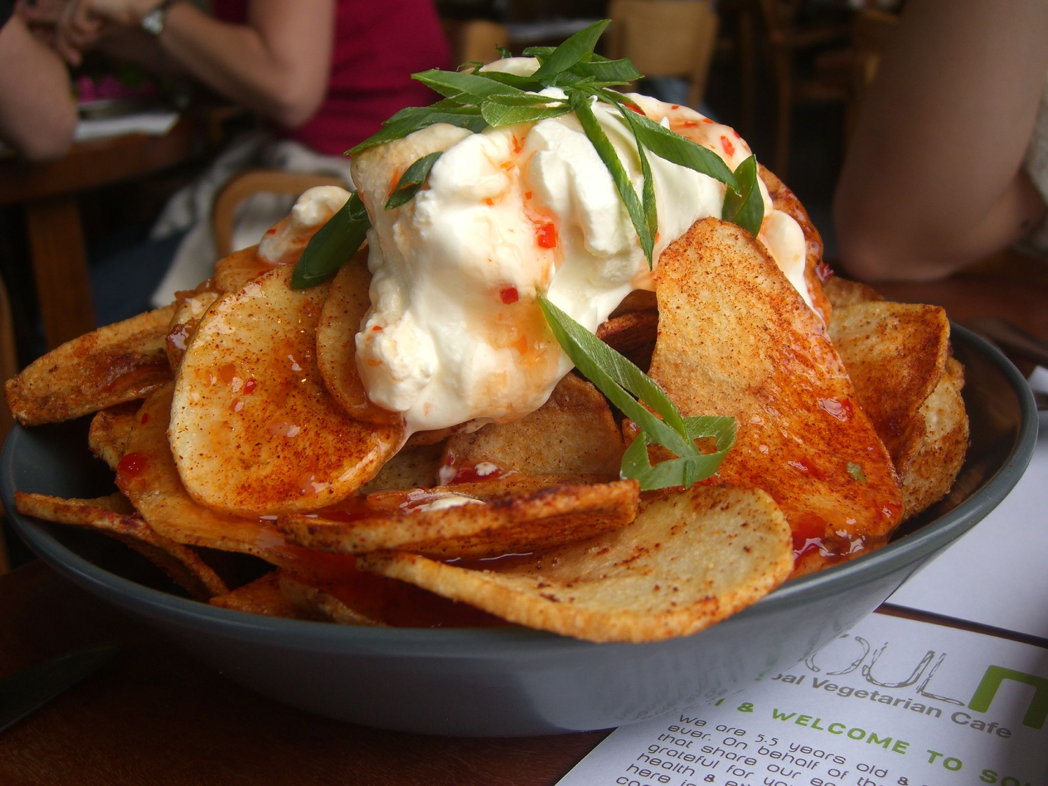 Crispy Potato Skins with Sour Cream and Sweet Chilli Sauce